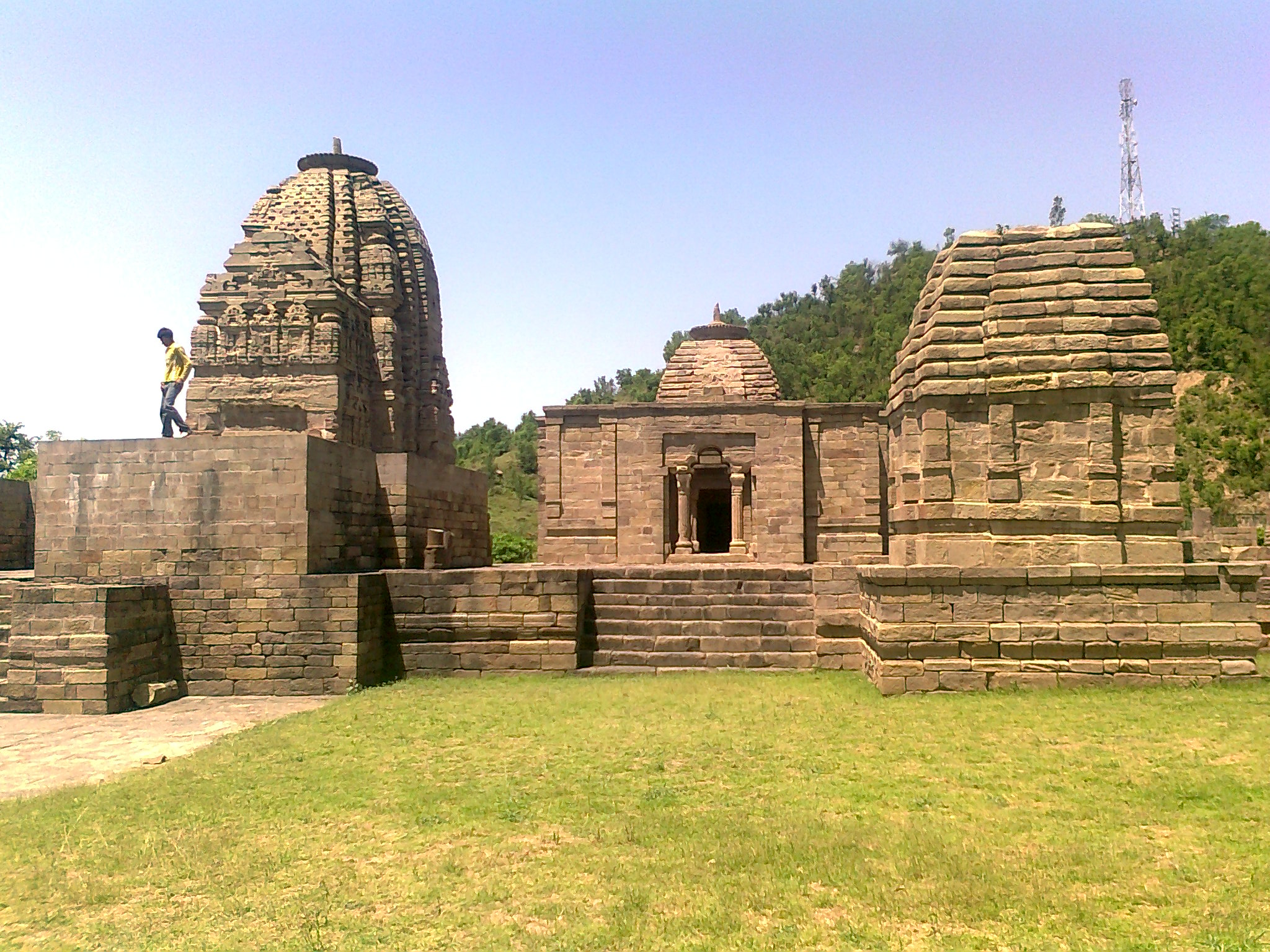 Krimchi Group of Temples